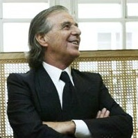 Picture of Ricardo Bofill